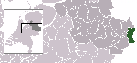 Location of Losser. Used in Losser.